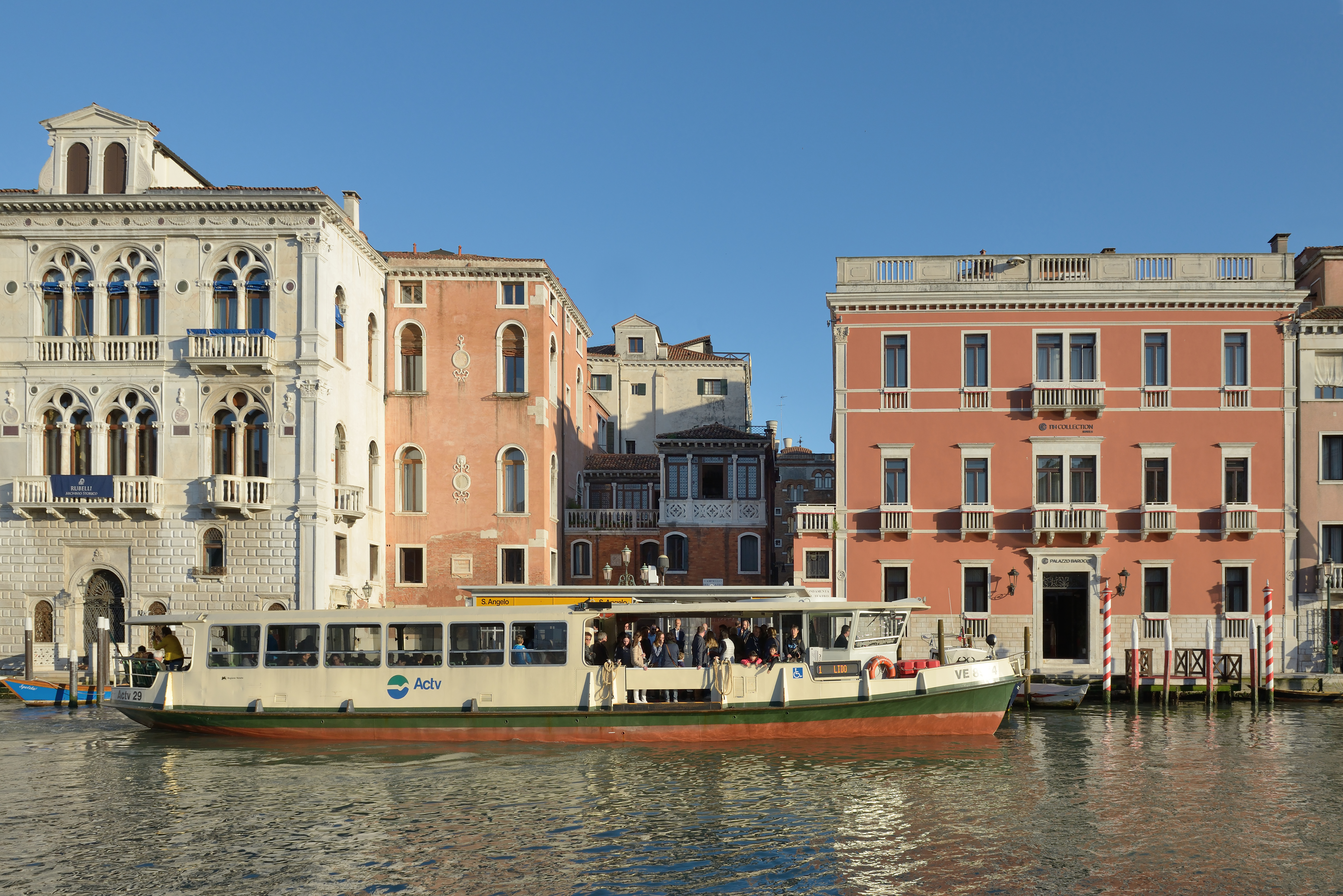 Vaporetto stop S. Angelo and the palaces Corner Spinelli, Casa Salome and Barocci in Venice. Facade on Grand Canal.